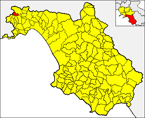 Locator map of the municipality of San Valentino Torio (red) within the Province of Salerno